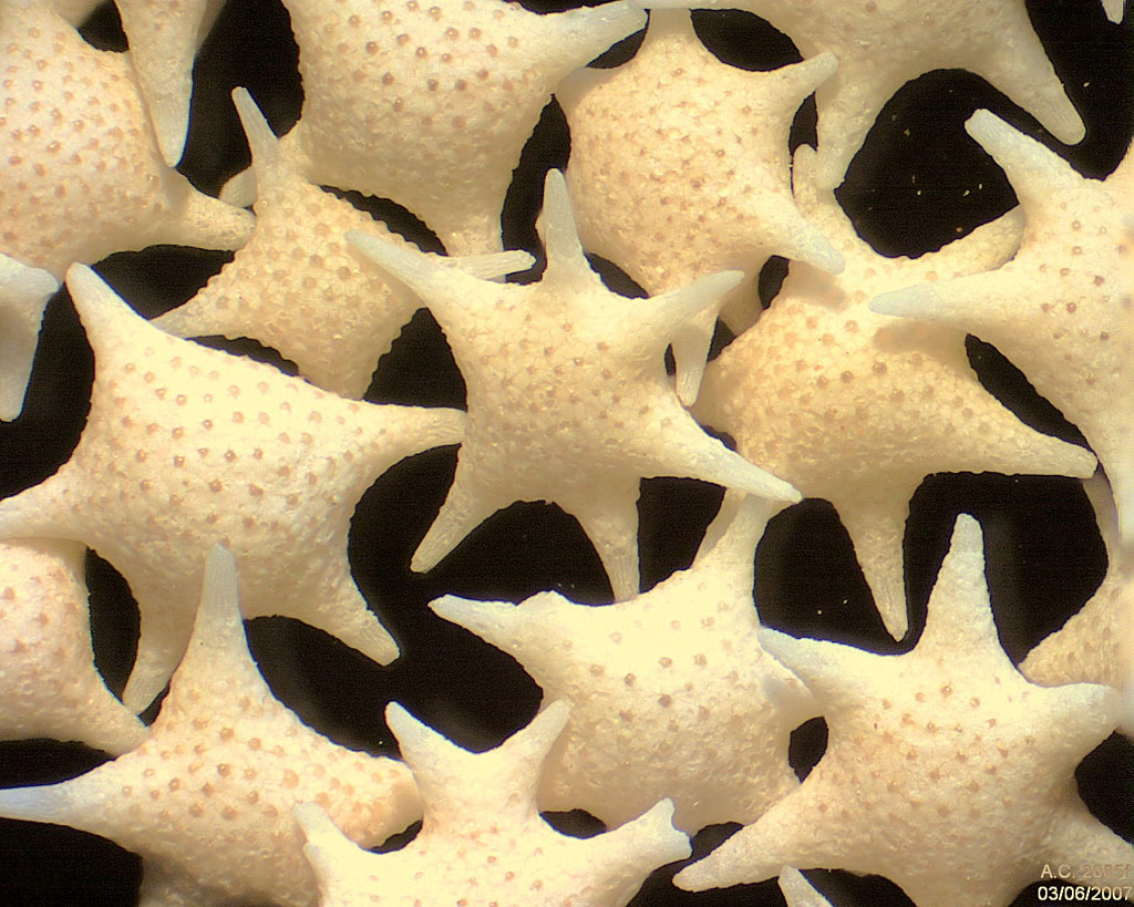 Foraminifera "Star sand" Hatoma Island - Japan